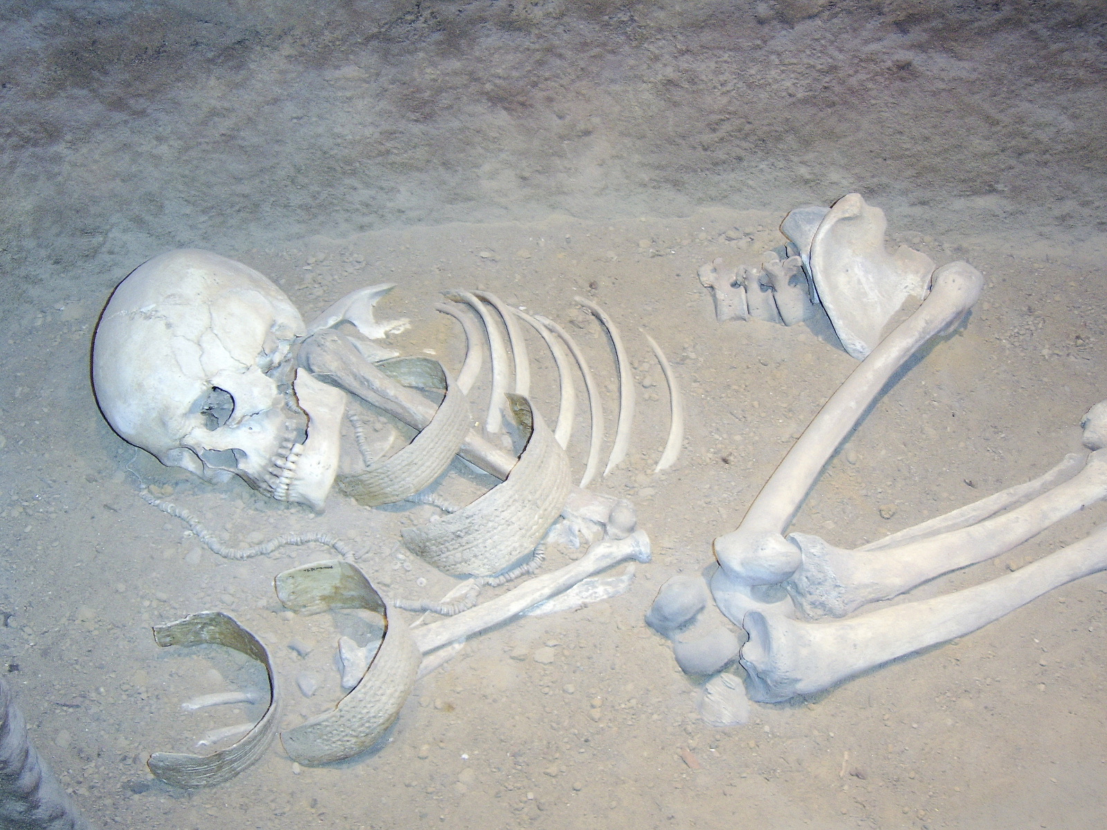 Women skeleton in the Biskupim muzeum. Three grave were found near the longhouse. One belonged to 35-year-old woman who had lived in the house.